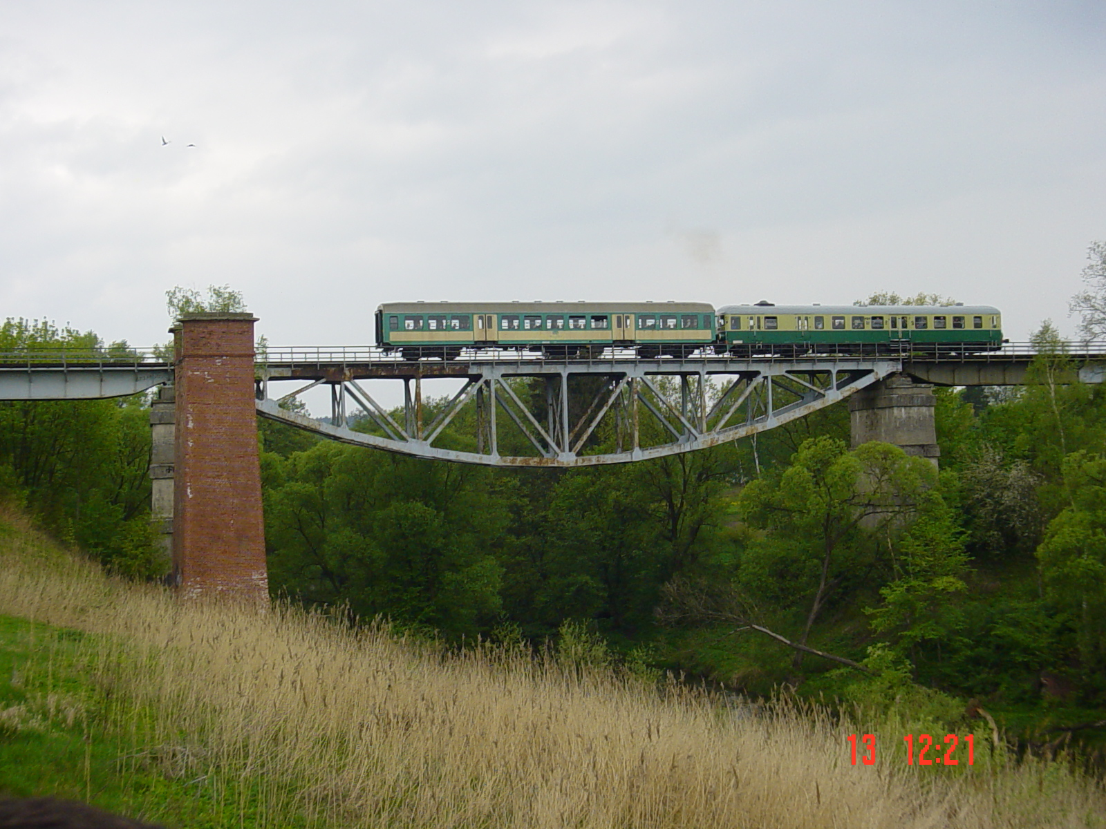 Diesel railcar SN61-183 on a bridge across the Łyna river East of Lidzbark Warmiński, Poland. The line (Czerwonka - Lidzbark Warmiński) has been out of use since 1999. In 2003, it was passed by this charter train during a railfan tour along disused tracks of Warmia and Masuria. The red column in the front belonged to a parallel railroad line Sątopy Samulewo - Lidzbark Warmiński, which was dismantled in 1945. [1] See the pre-war situation on a [2] (Heilsberg = Lidzbark Warmiński; South-East-bound line goes to Czerwonka, Eastbound one to Sątopy).